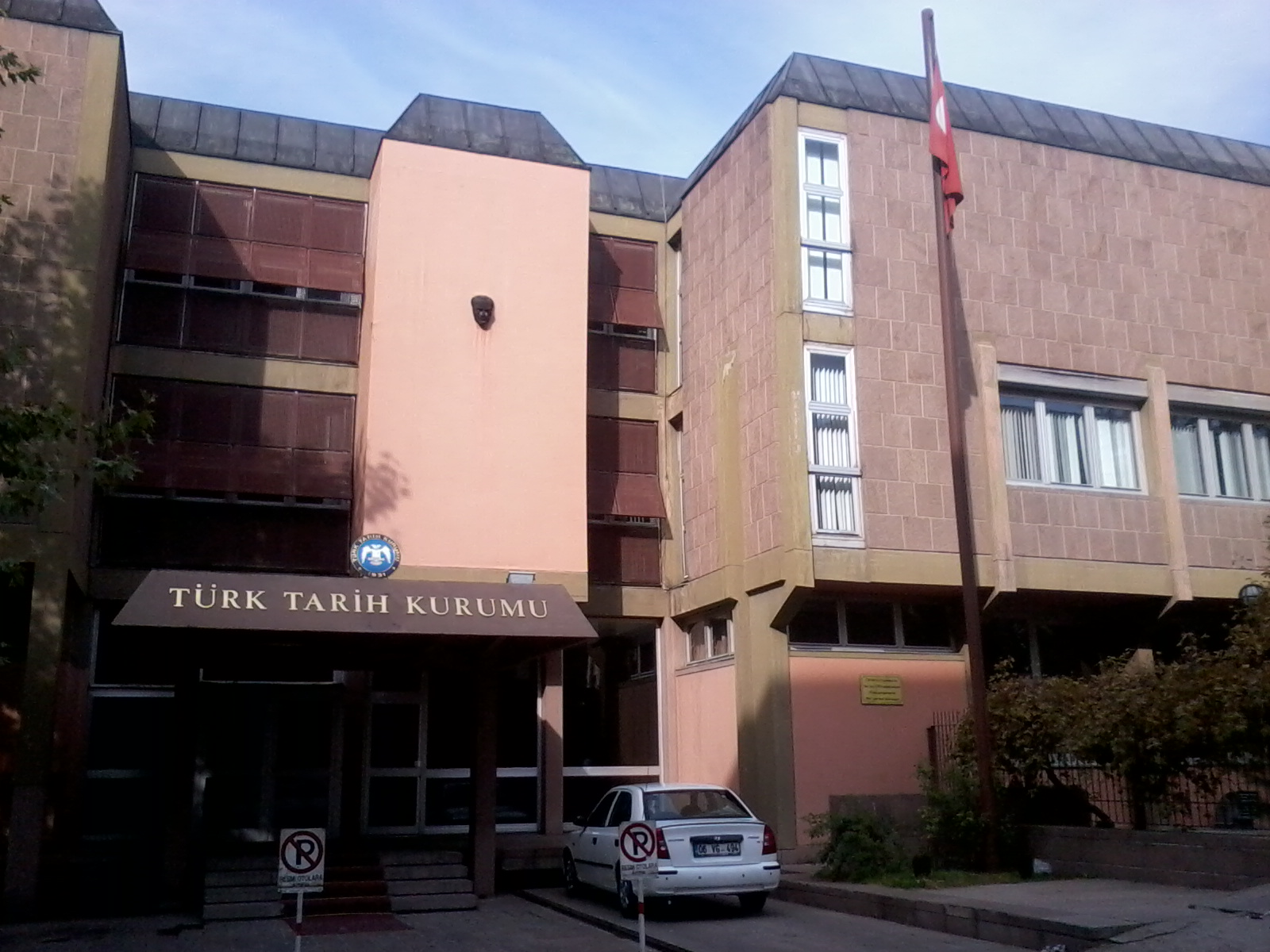 Turkish Historical Association building, Sıhhiye, AnkaraTürkçe: Türk Tarih Kurumu binası, Sıhhiye, Ankara